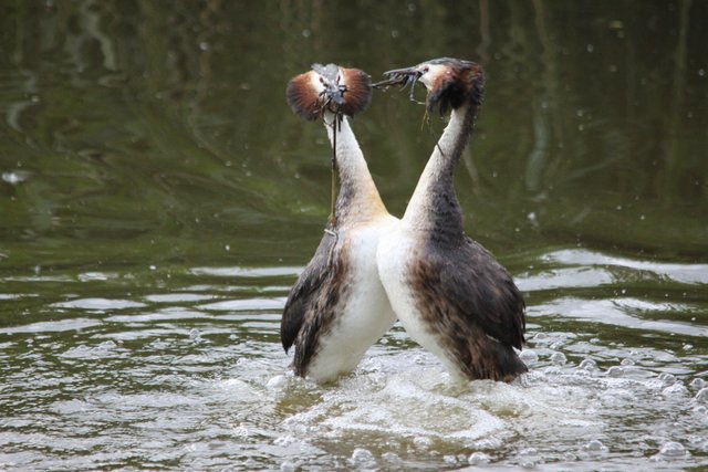 Grebes showing love